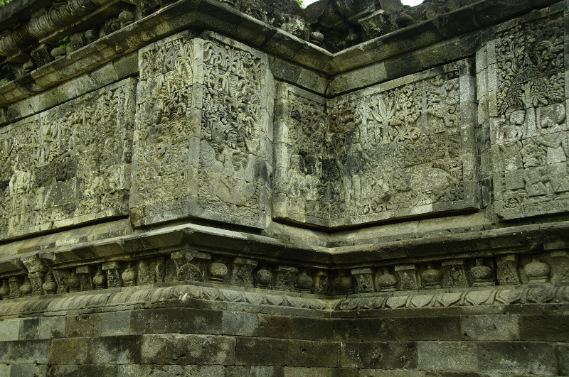 Candi Surowono, Pare, Kediri, Jawa Timur.